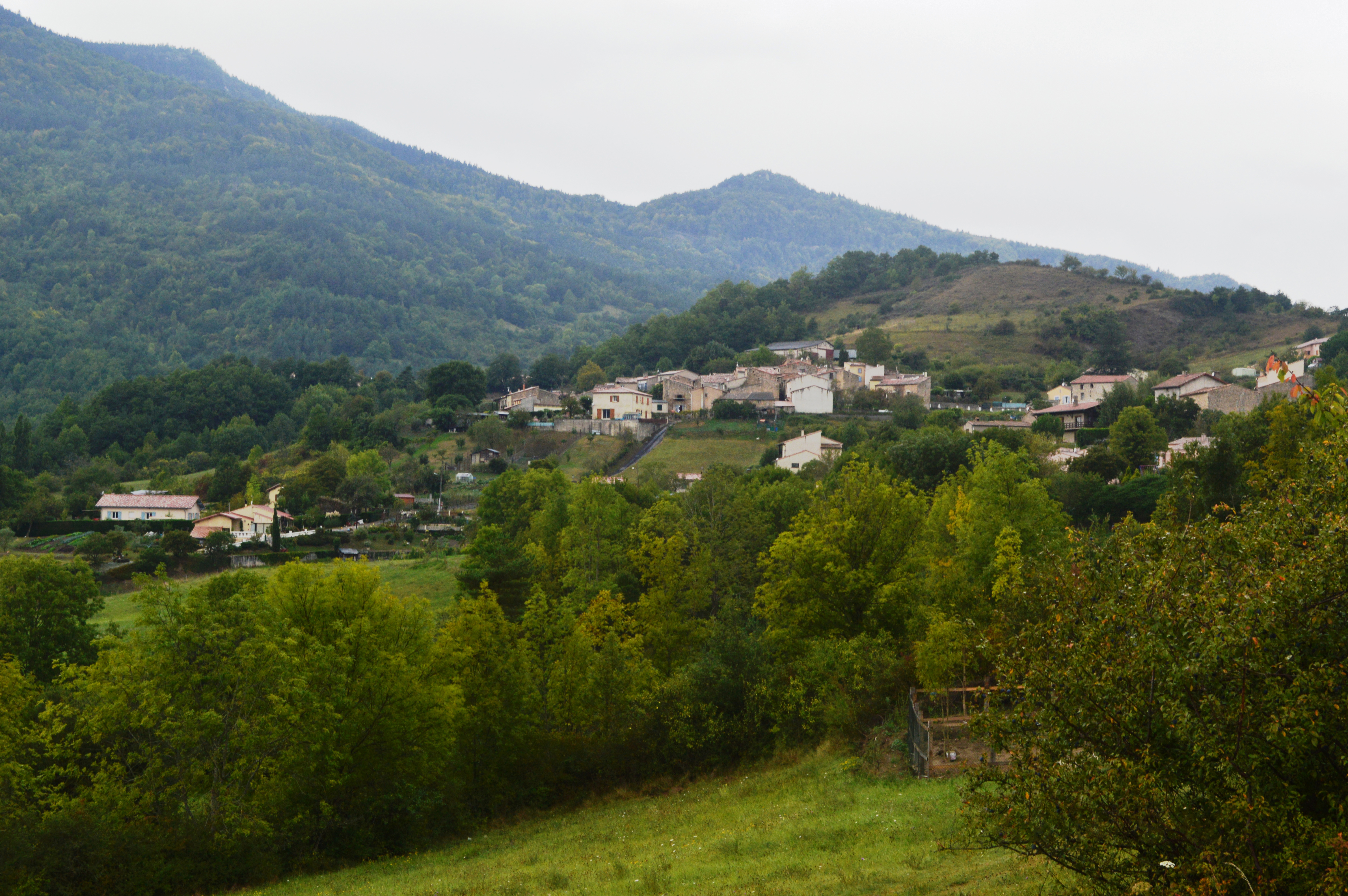 General view of the village